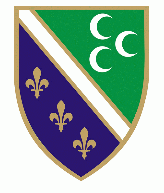 Coat of arms of Bosniaks in Serbia and Montenegro